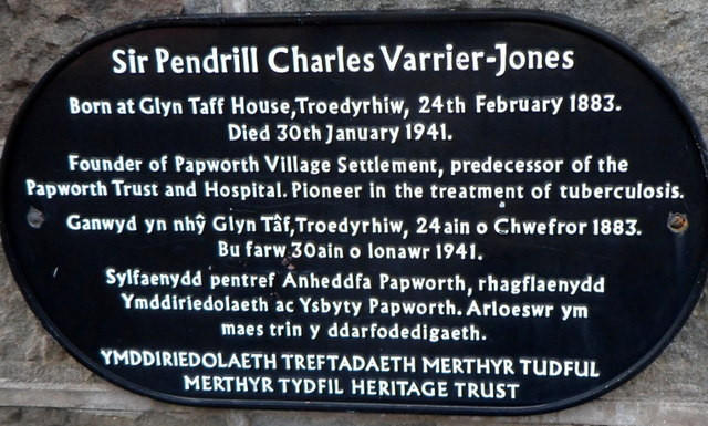 Troedyrhiw plaque marking the birthplace of a pioneer in the treatment of tuberculosis